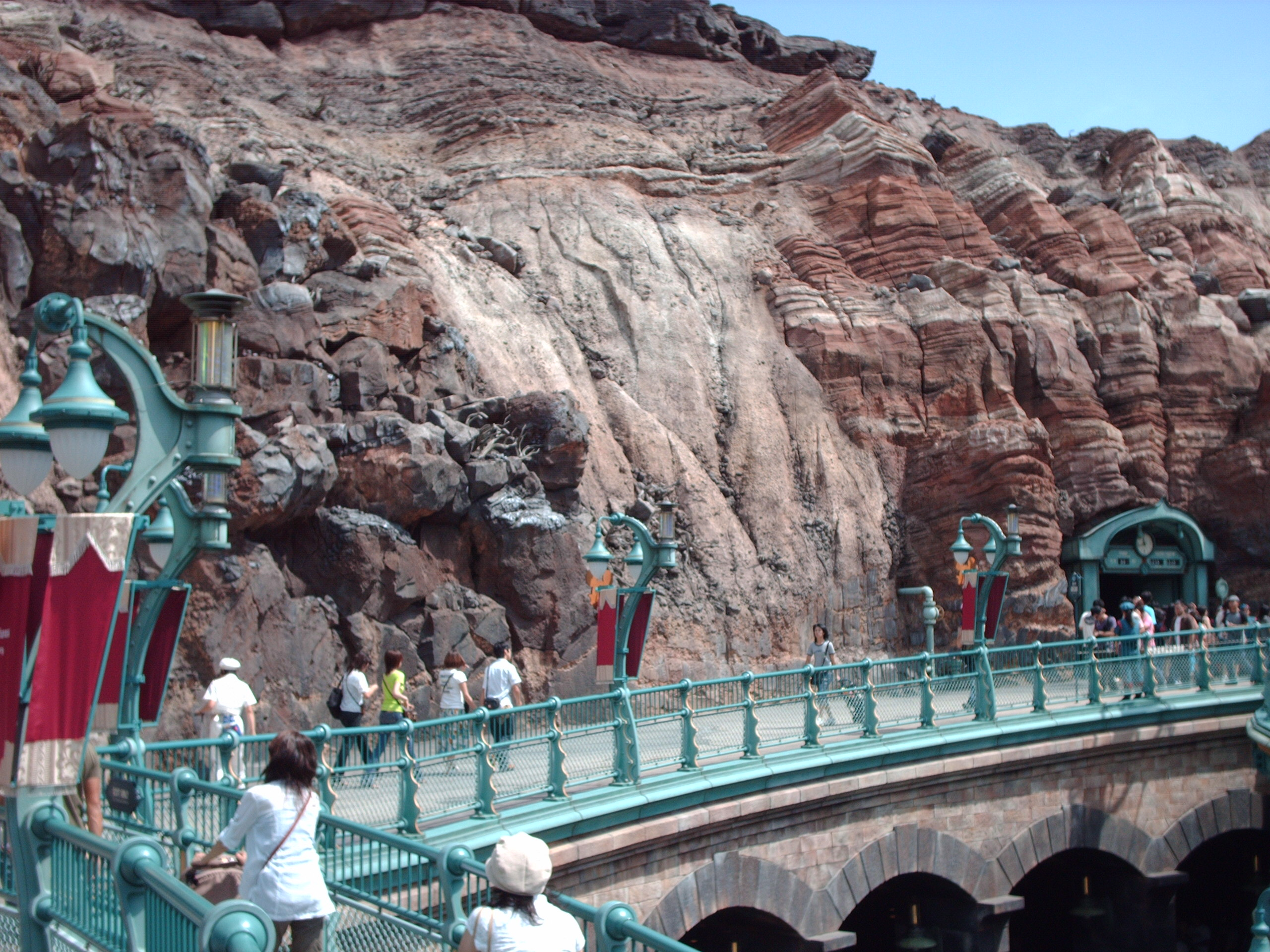 Walking around the inner rim of the caldera (or if you're a Jules Verne fan...Volcania), near the base of Mount Prometheus in the Mysterious Island port of call. Tokyo DisneySea, Japan.